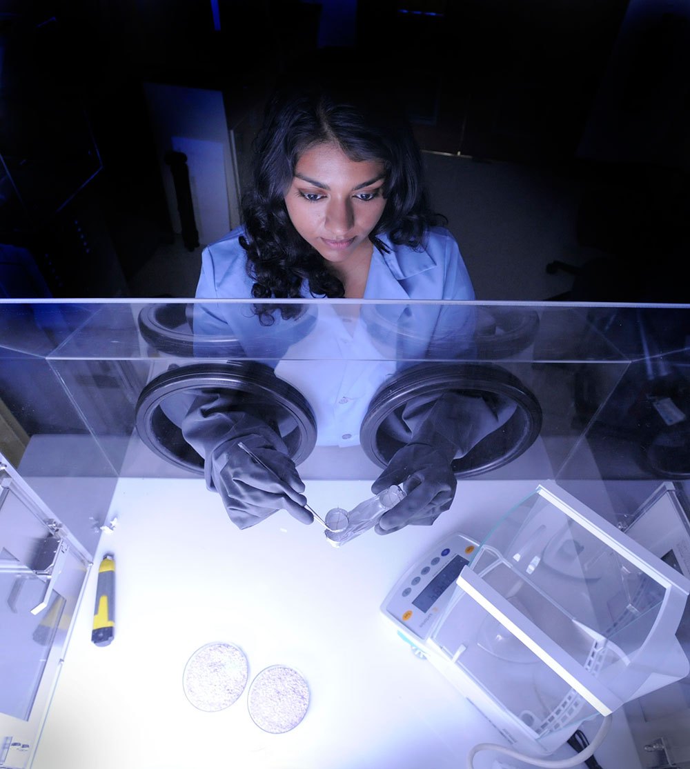 Goddard technologist Nithin Abraham, a member of the team that has developed a low-cost, low-mass technique for protecting sensitive spacecraft components from outgassed contaminants, studies a paint sample in her laboratory. To read this story go to: Credit: NASA/Pat Izzo NASA image use policy. NASA Goddard Space Flight Center enables NASA’s mission through four scientific endeavors: Earth Science, Heliophysics, Solar System Exploration, and Astrophysics. Goddard plays a leading role in NASA’s accomplishments by contributing compelling scientific knowledge to advance the Agency’s mission. Follow us on Twitter Like us on Facebook Find us on Instagram